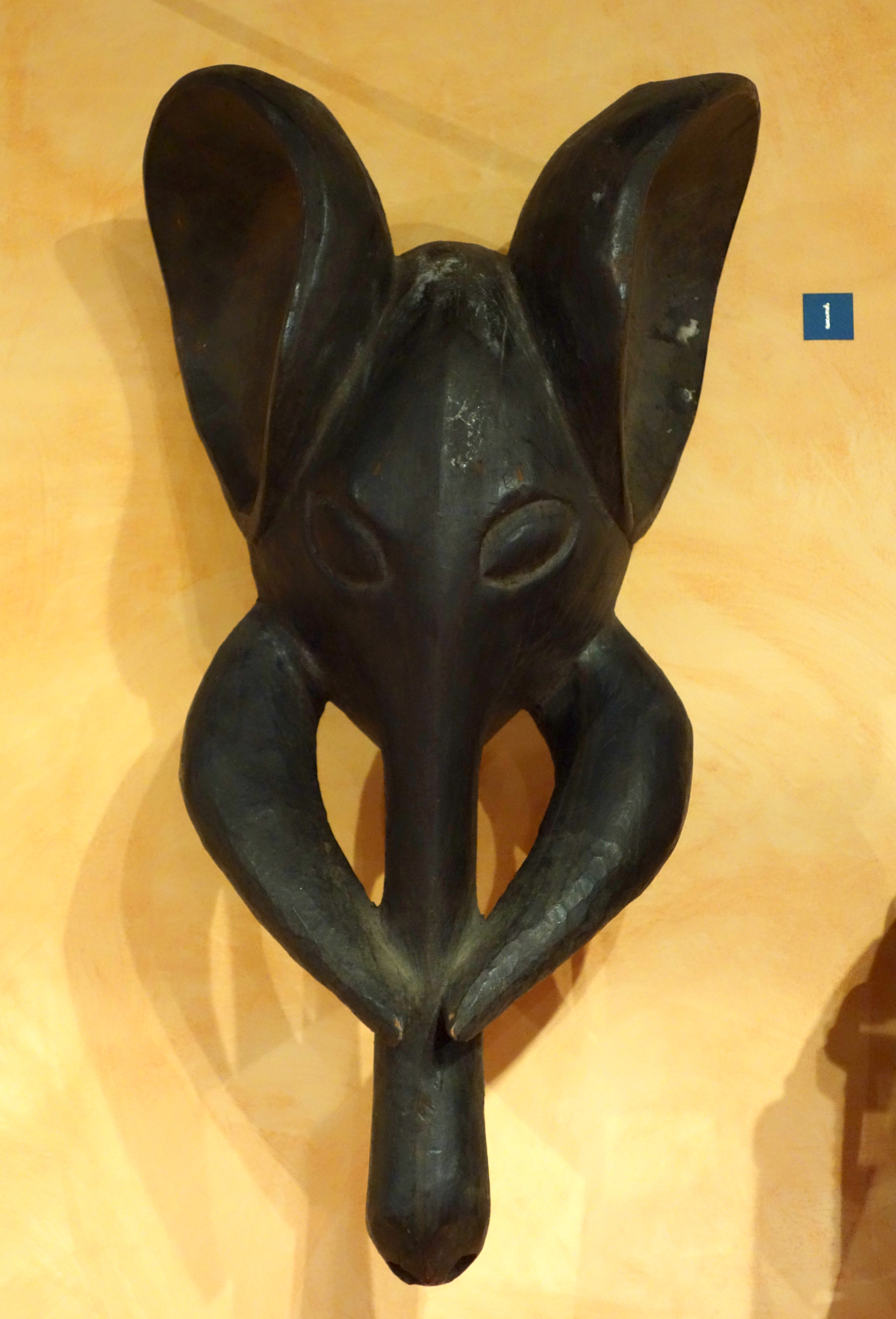 Exhibit in the Glenbow Museum, 130 9th Ave S.E., Calgary, Alberta, Canada. This artwork is old enough so that it is in the public domain.